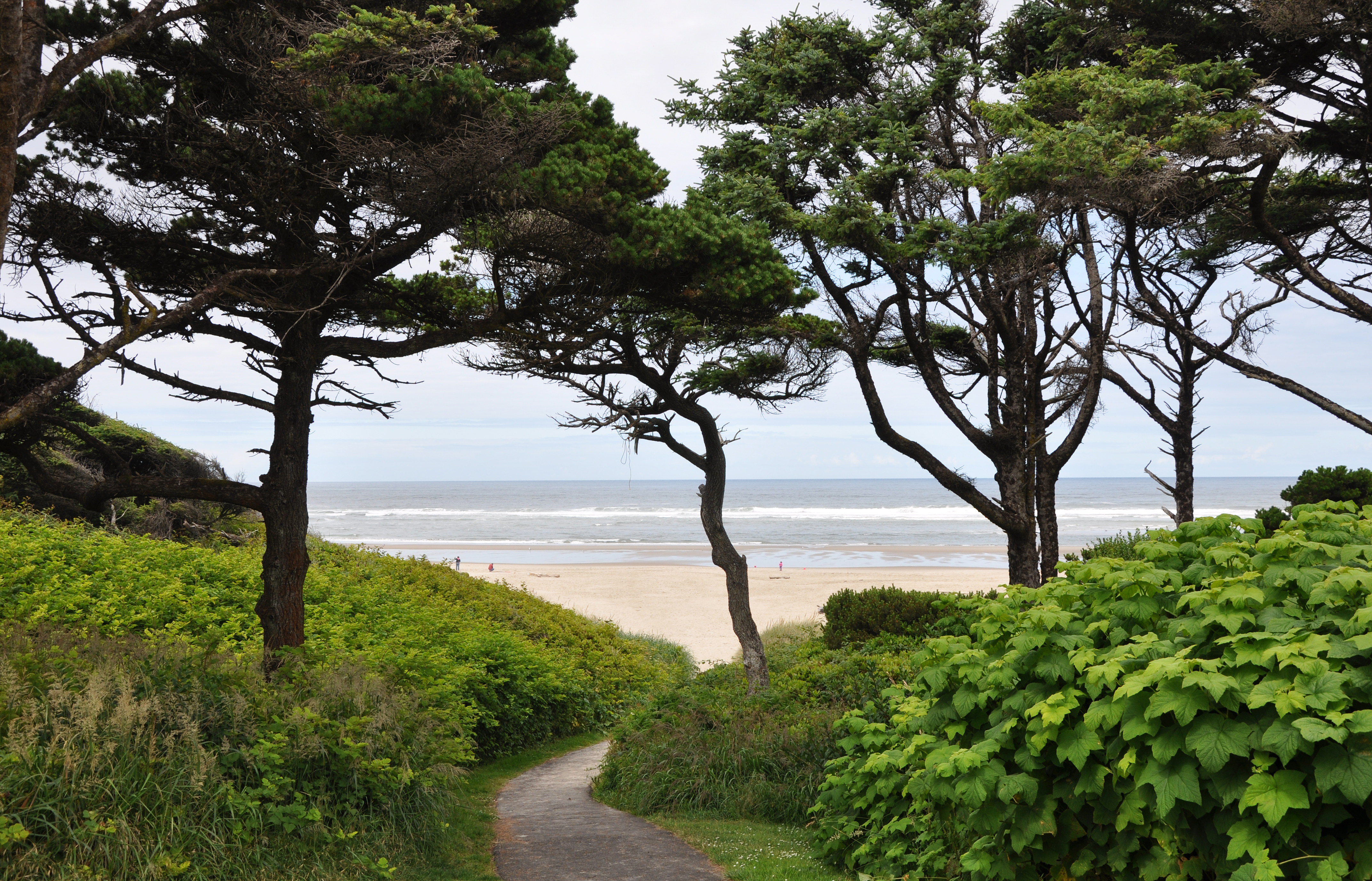 Governor Patterson Memorial State Recreation Site near Waldport in the U.S. state of Oregon.